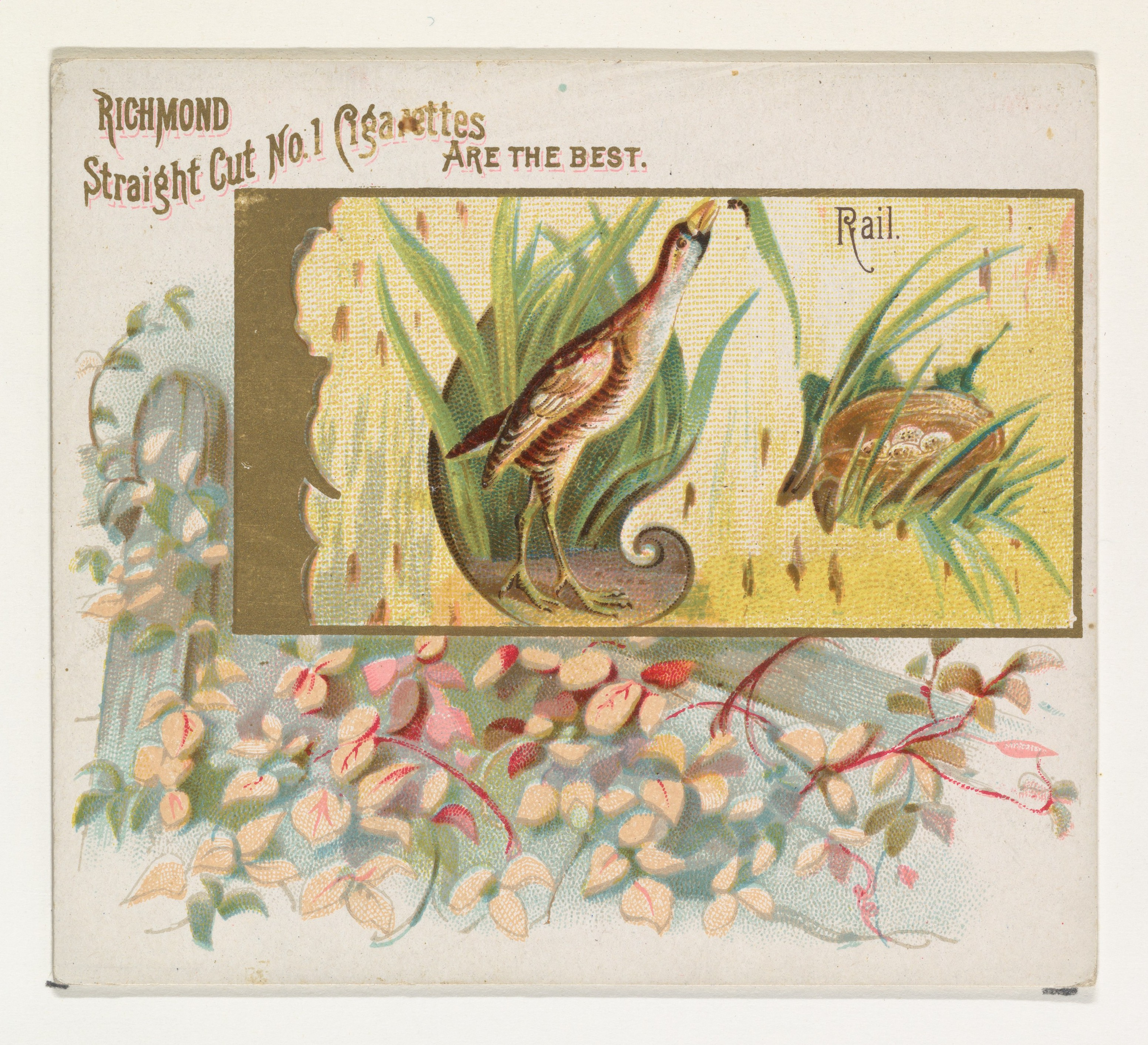 Print; Prints/Ephemera